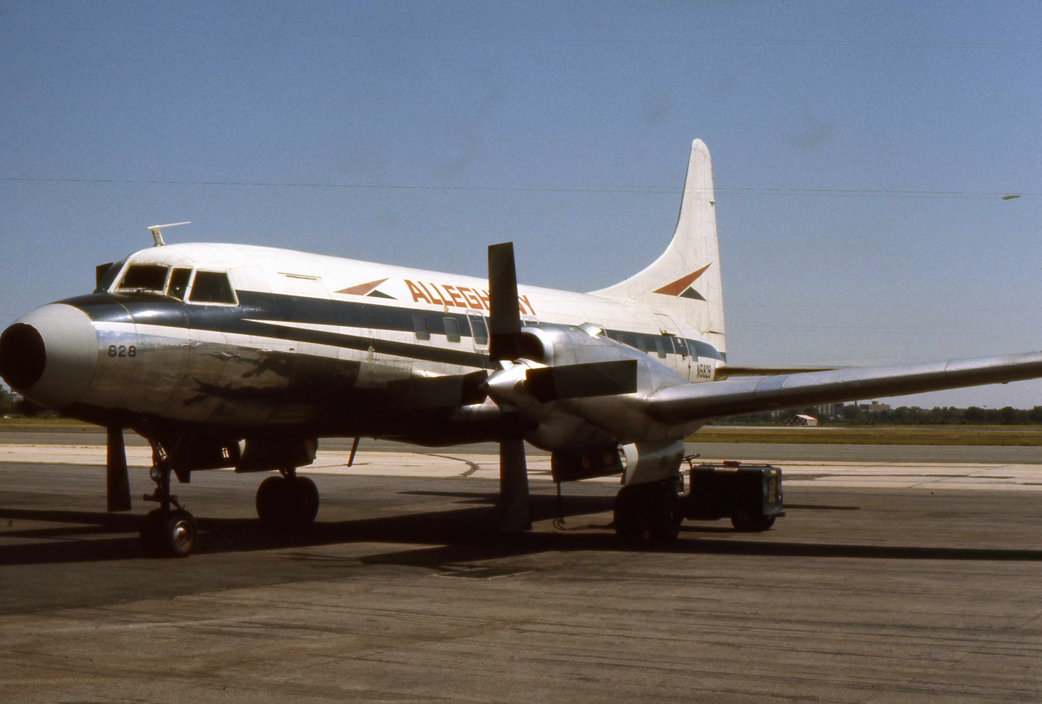 Allegheny Airlines Convair CV-580 N5828, c/n 375 delivered on August 4, 1967, ex N3432.